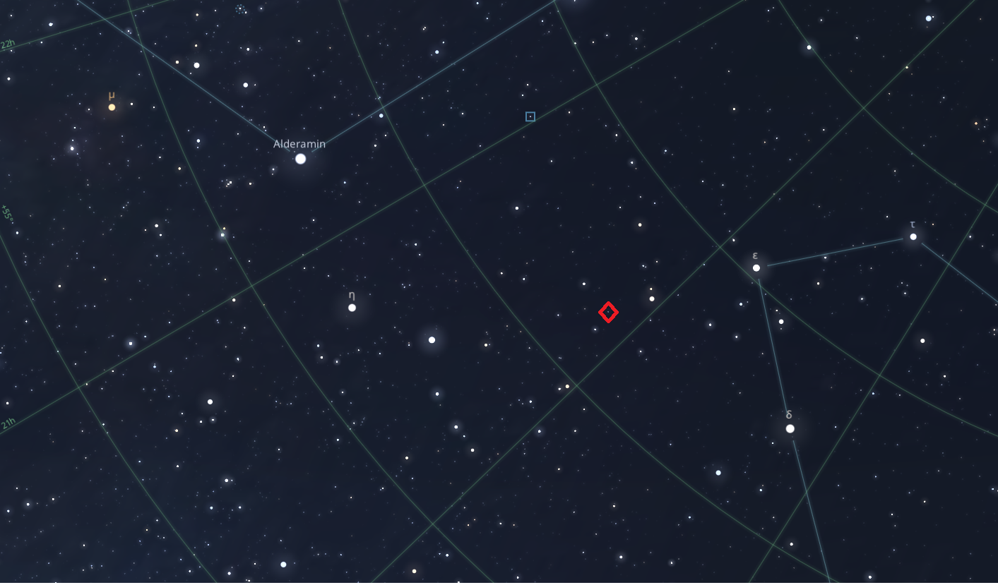 Starmap with HD 191939 marker, FOV 20 degrees, based on open-source Stellarium engine.